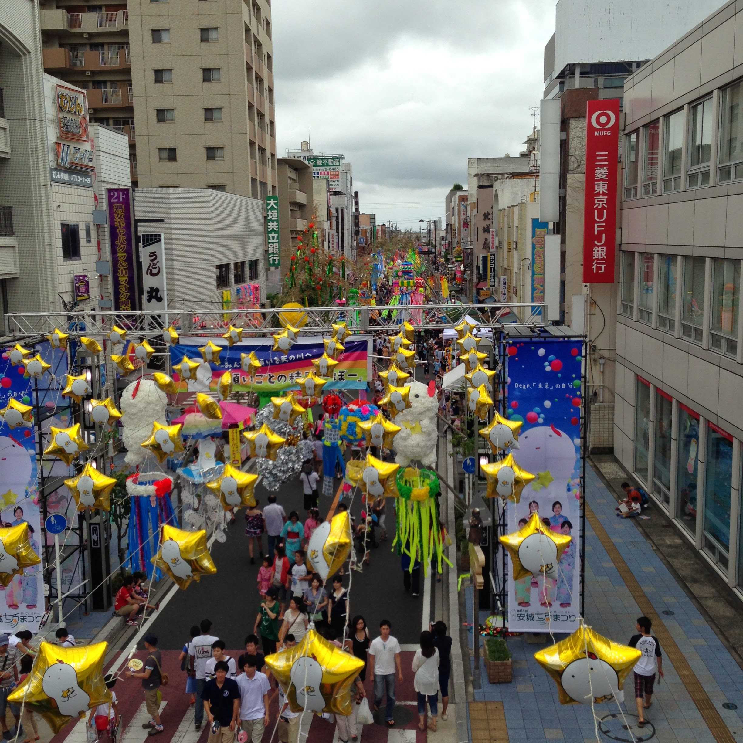 Anjo Tanabata Festival. Miyukihonmachi, Anjo, Aichi Prefecture 446-0032, Japan